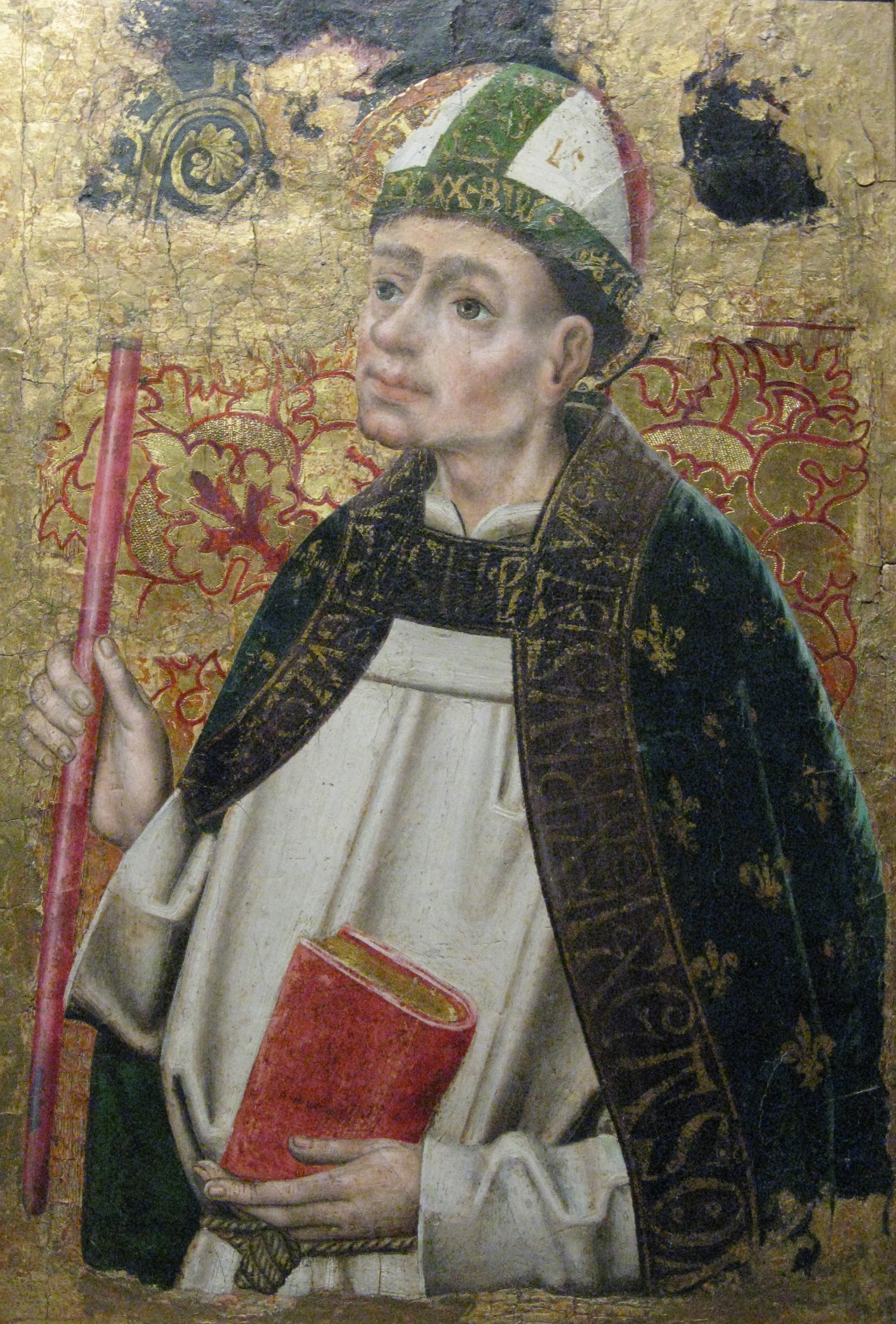 Saint Louis of Anjou. Photo of a painting of 16th century in Langeais Castle, France. Unknown painter.